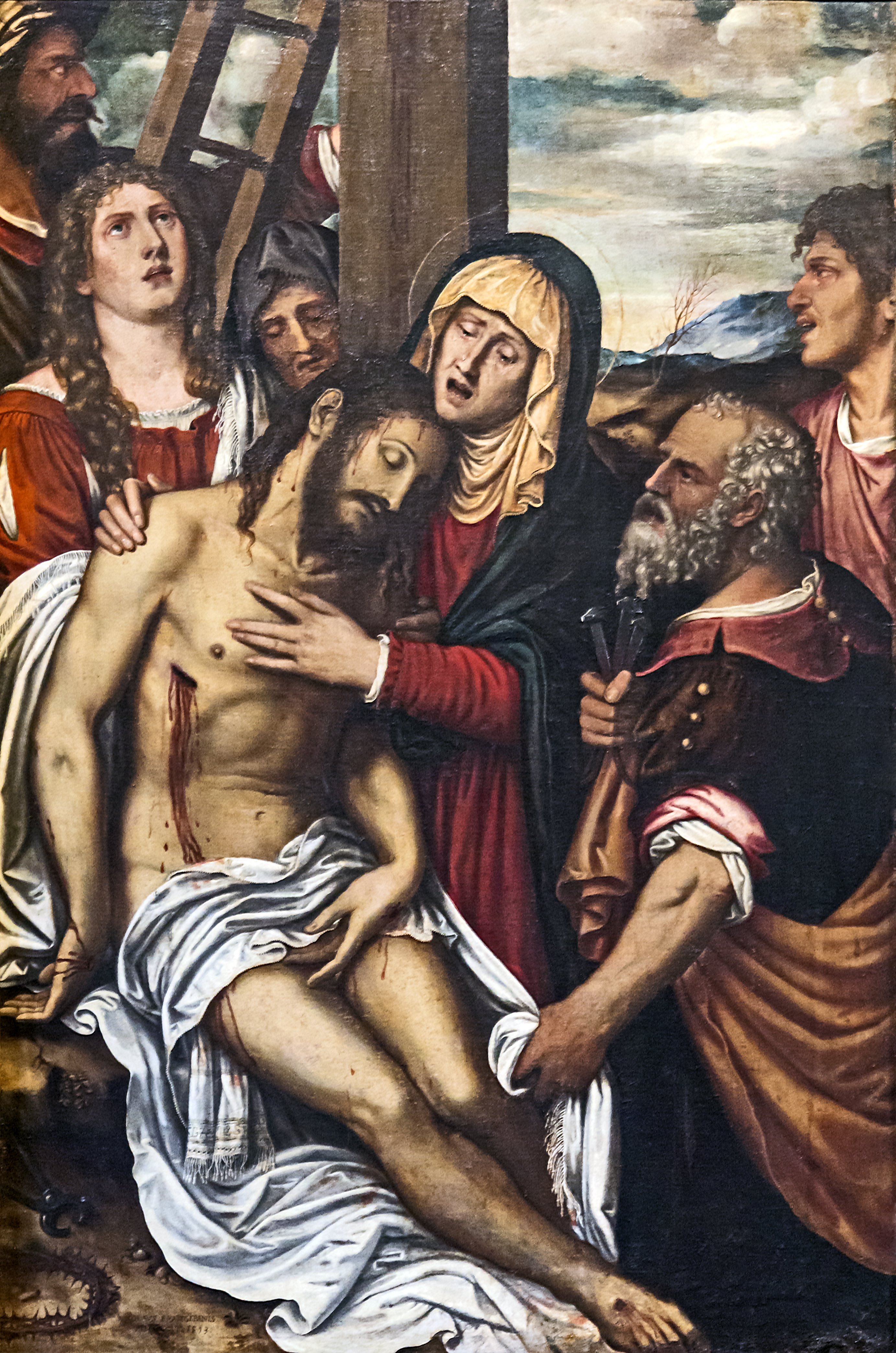 Santa Maria Gloriosa dei Frari, Sacristy - Descent from the Cross by Niccolò Frangipane. oil on canvas 1593.